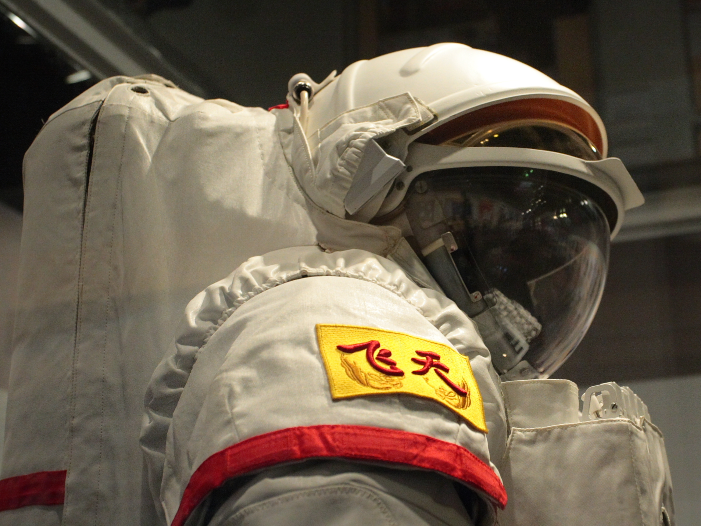 Chinese EVA spacesuit "Feitian". Taken at the Hong Kong Space Museum, 6 Dec 2008.